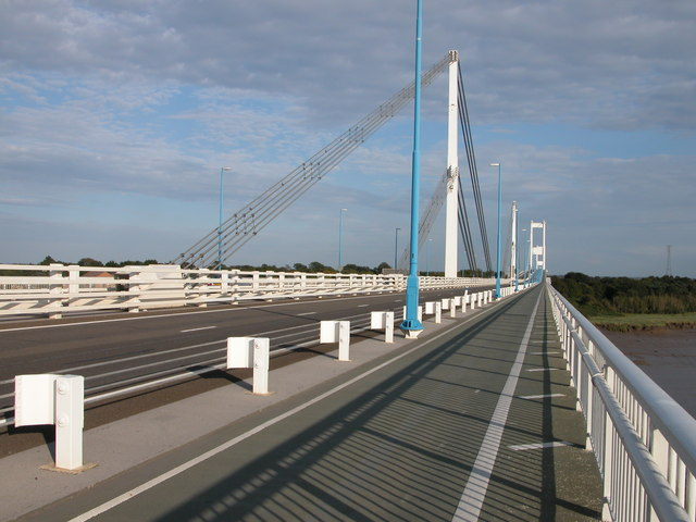 The Wye Bridge and in the background the Severn Bridge carry the M48. Previously the bridges carried the M4 which now has been diverted and crosses via the new Severn Bridge further downstream. Object location51° 37′ 09″ N, 2° 39′ 49″ W